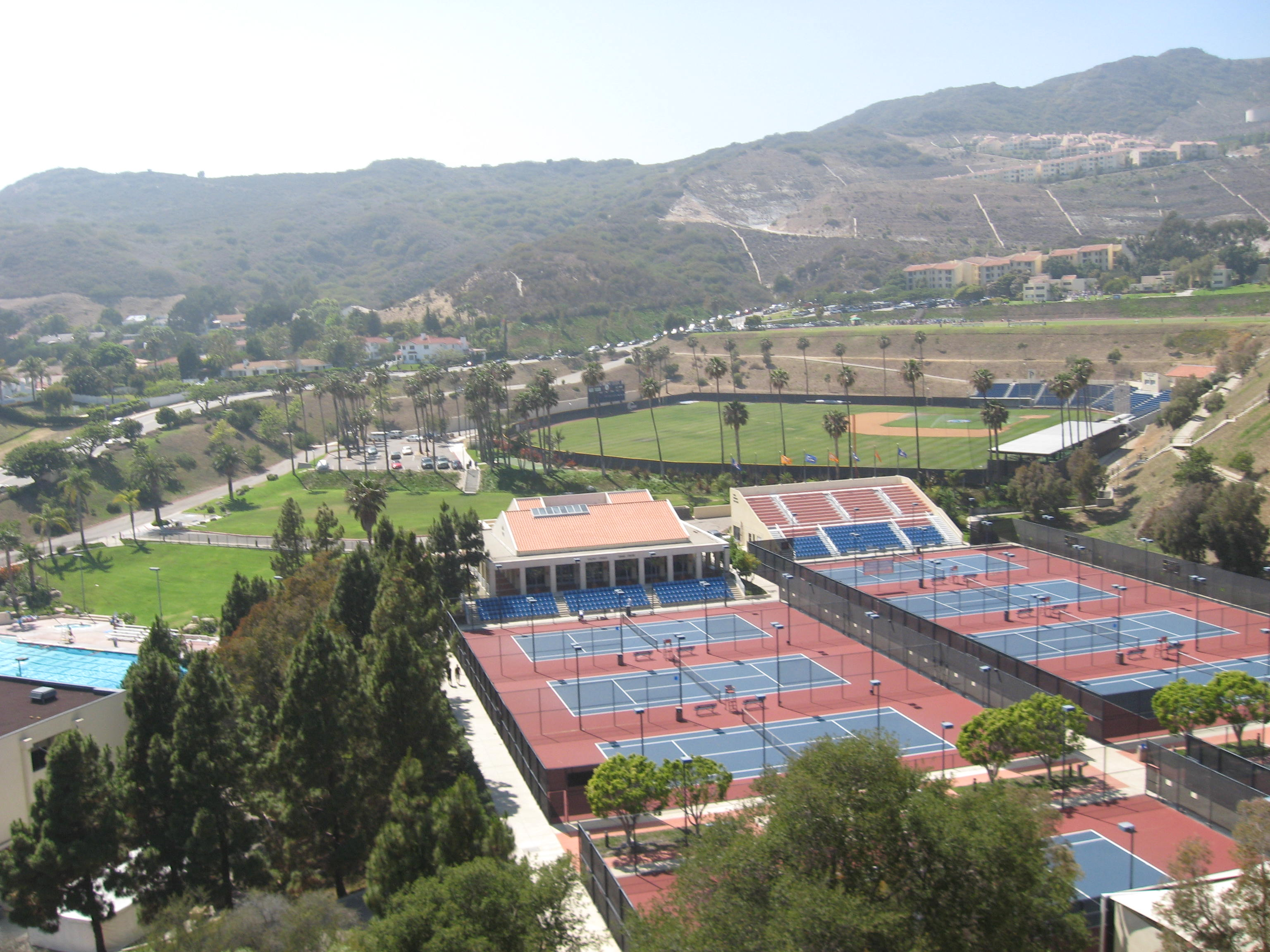 Tennis courts, baseball court and swimming pool at the Pepperdine University in Malibu, California.